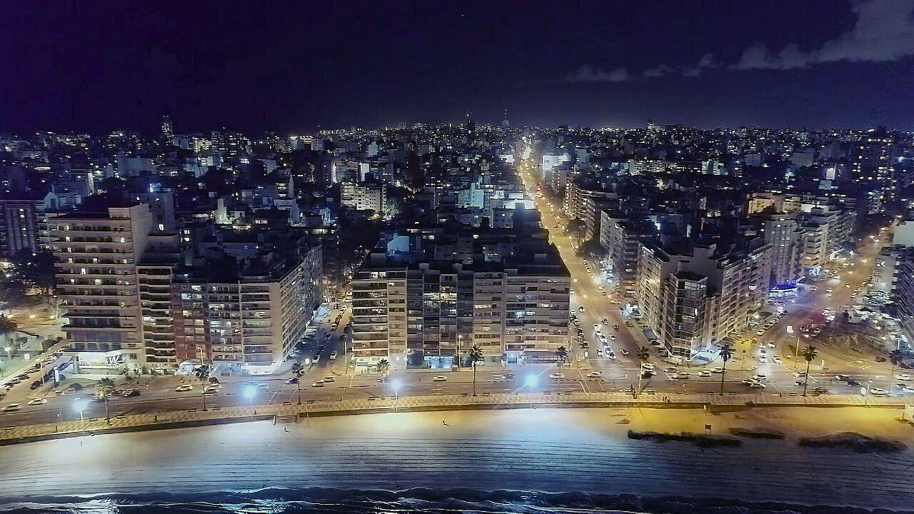 The Pocitos neighborhood of Montevideo, Uruguay. Skyline from the shore (aerial).